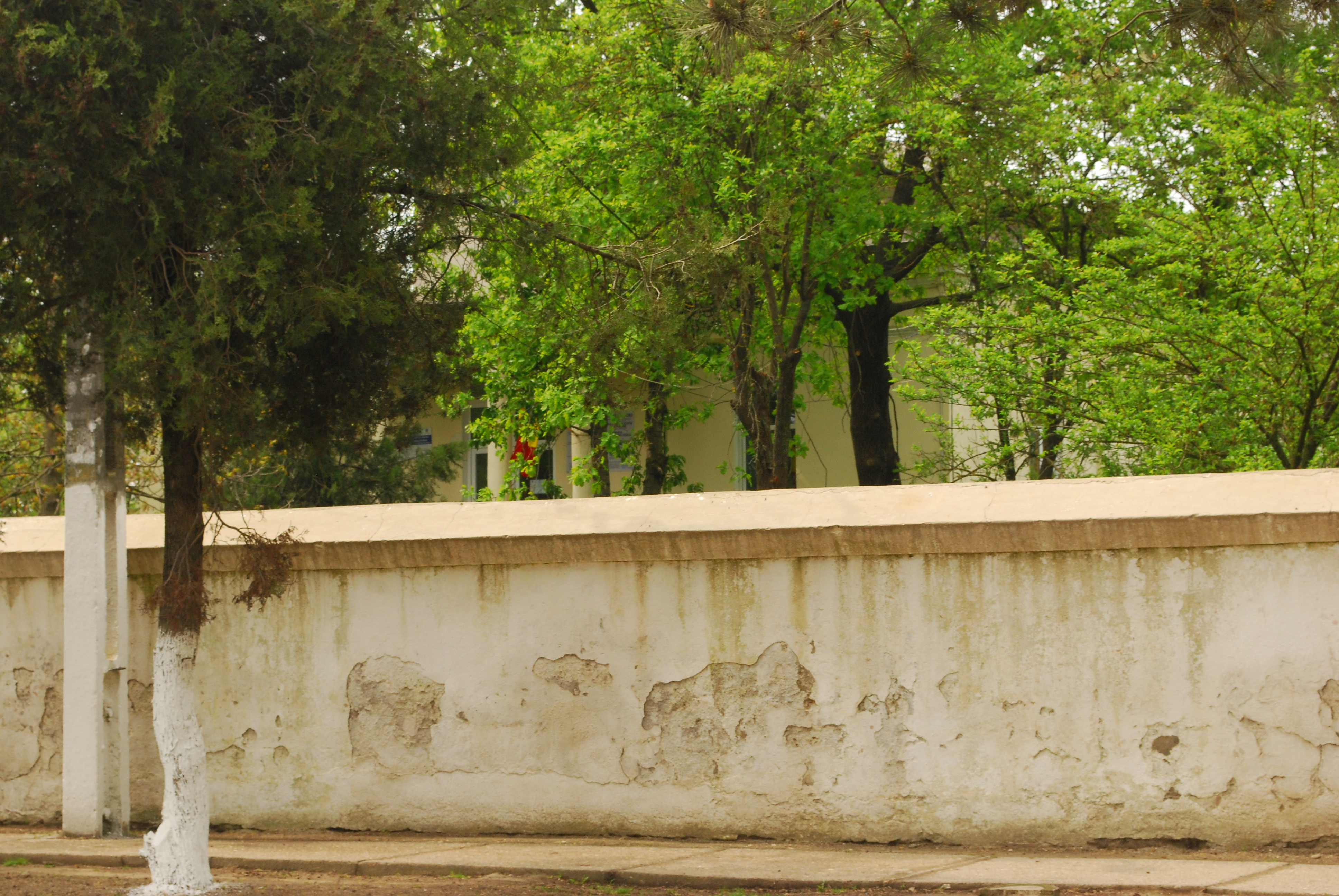 Apostol Arsache mansion in Vedea, Giurgiu County, Romania